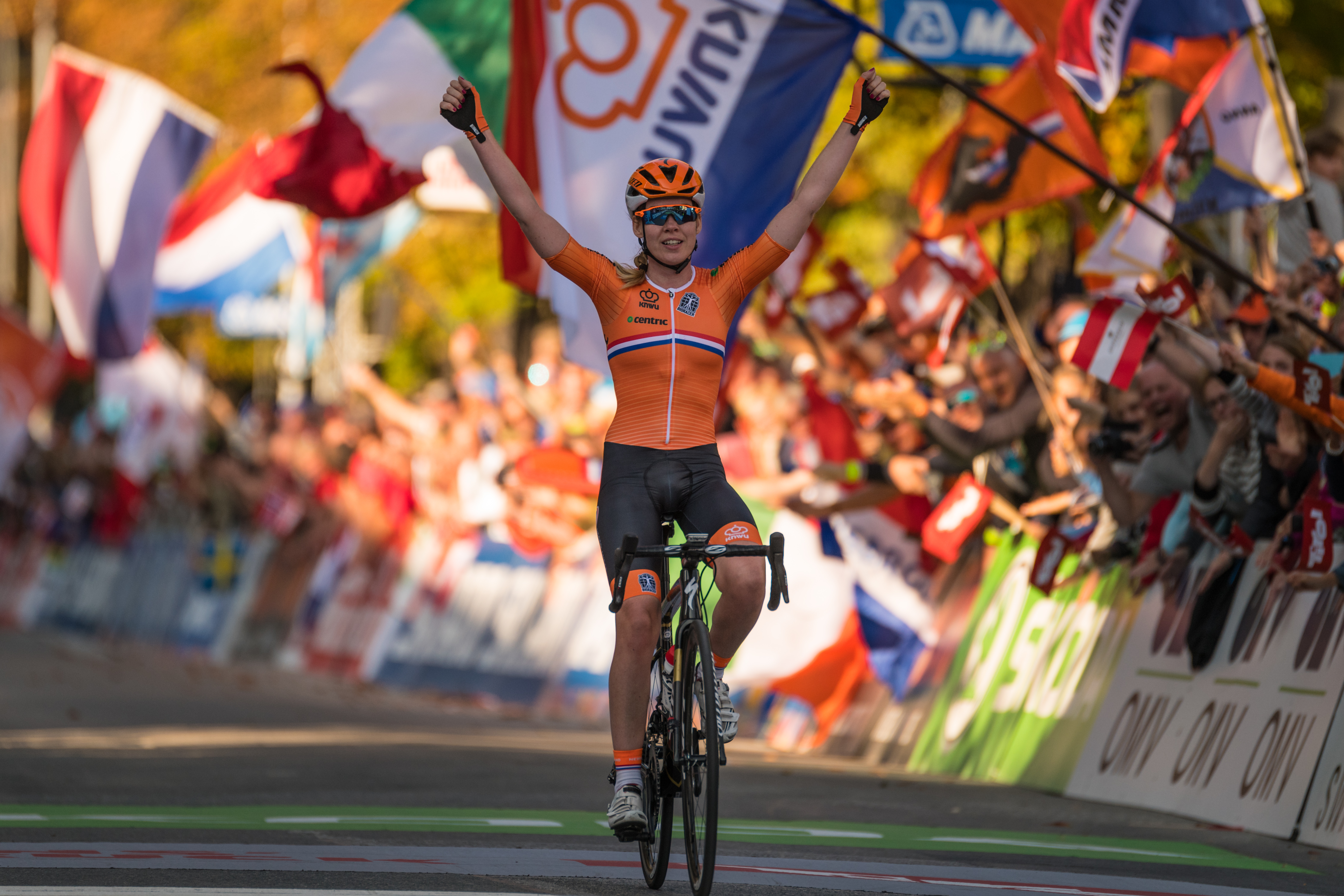 2018 UCI Road World Championships Innsbruck/Tirol Women Elite Road Race. Picture shows: Anna van der Breggen of the Netherlands